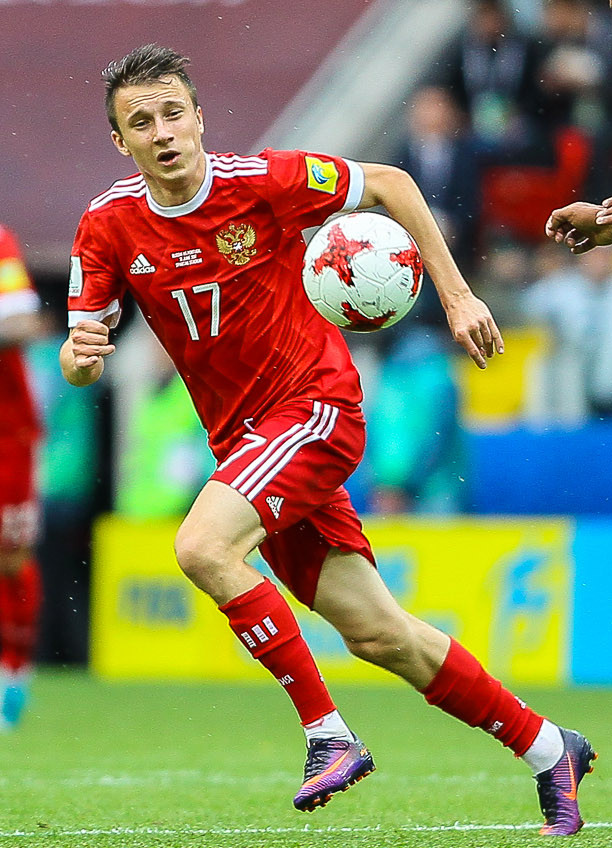 Russia VS. Portugal 0 - 1, 21 June 2017